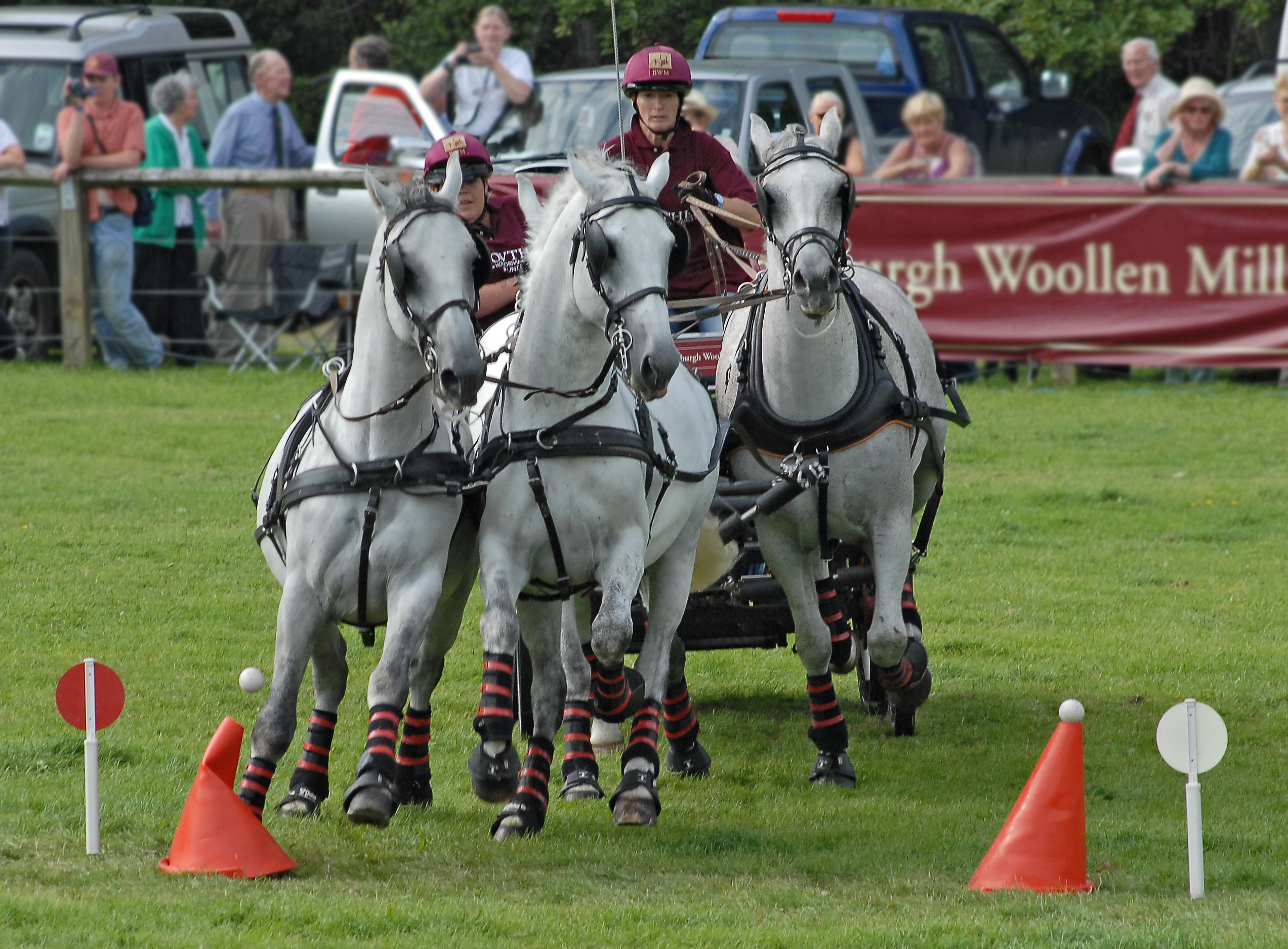 A ball is dislodged from the top of a cone at high speed by British driver Pippa Bassett at the Lowther National Horse Driving Trials (GBR) in 2007.